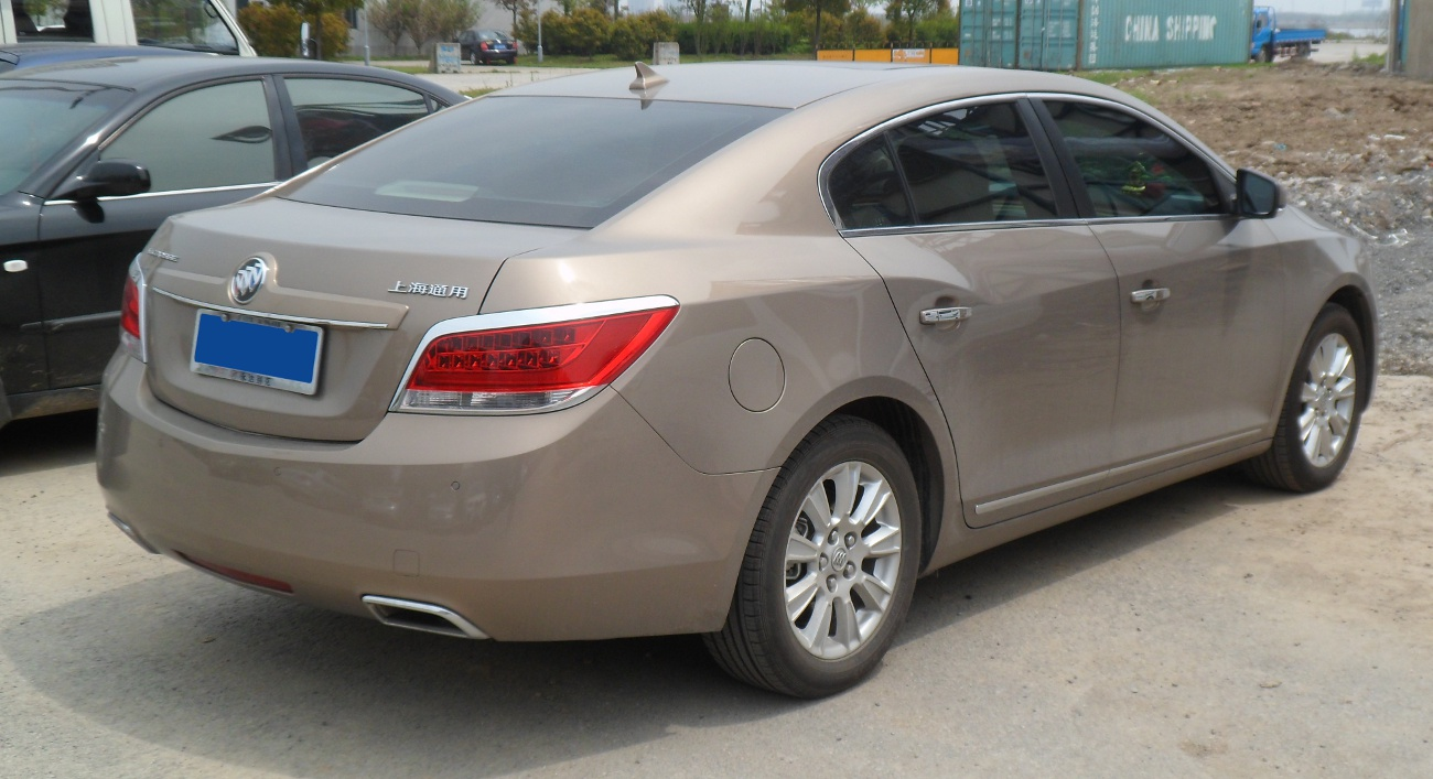 Buick LaCrosse II photographed in Anting, Shanghai municipality, China.